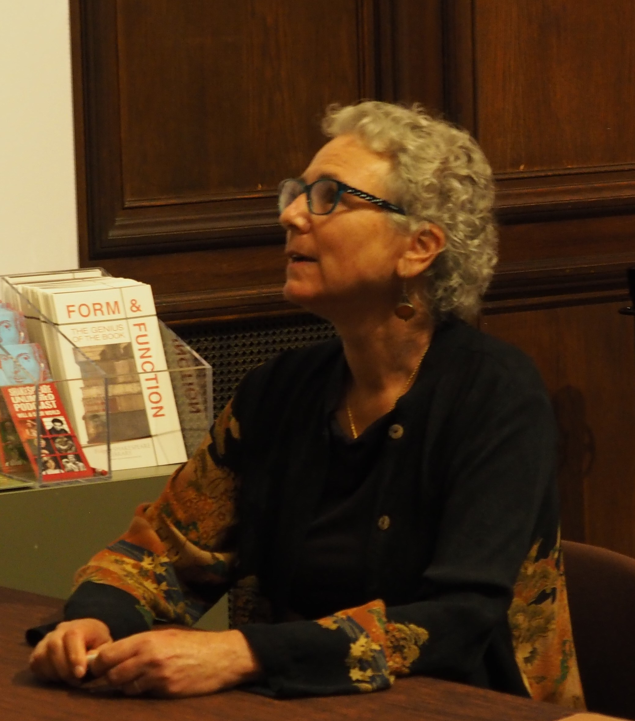 reading at the Folger Shakespeare Library